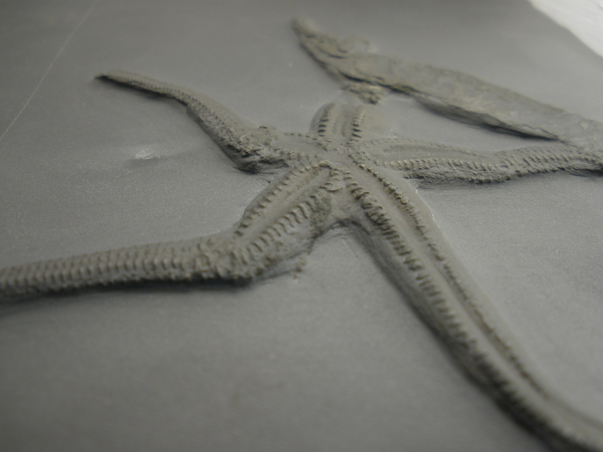 fossil Urasterella asperula on display at the Museo di Storia Naturale di Verona